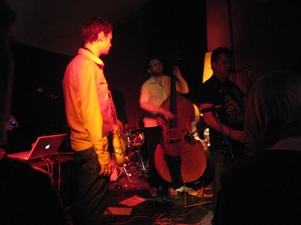 Polar Bear, at Taylor John's House, Coventry Jazz Festival 2007]